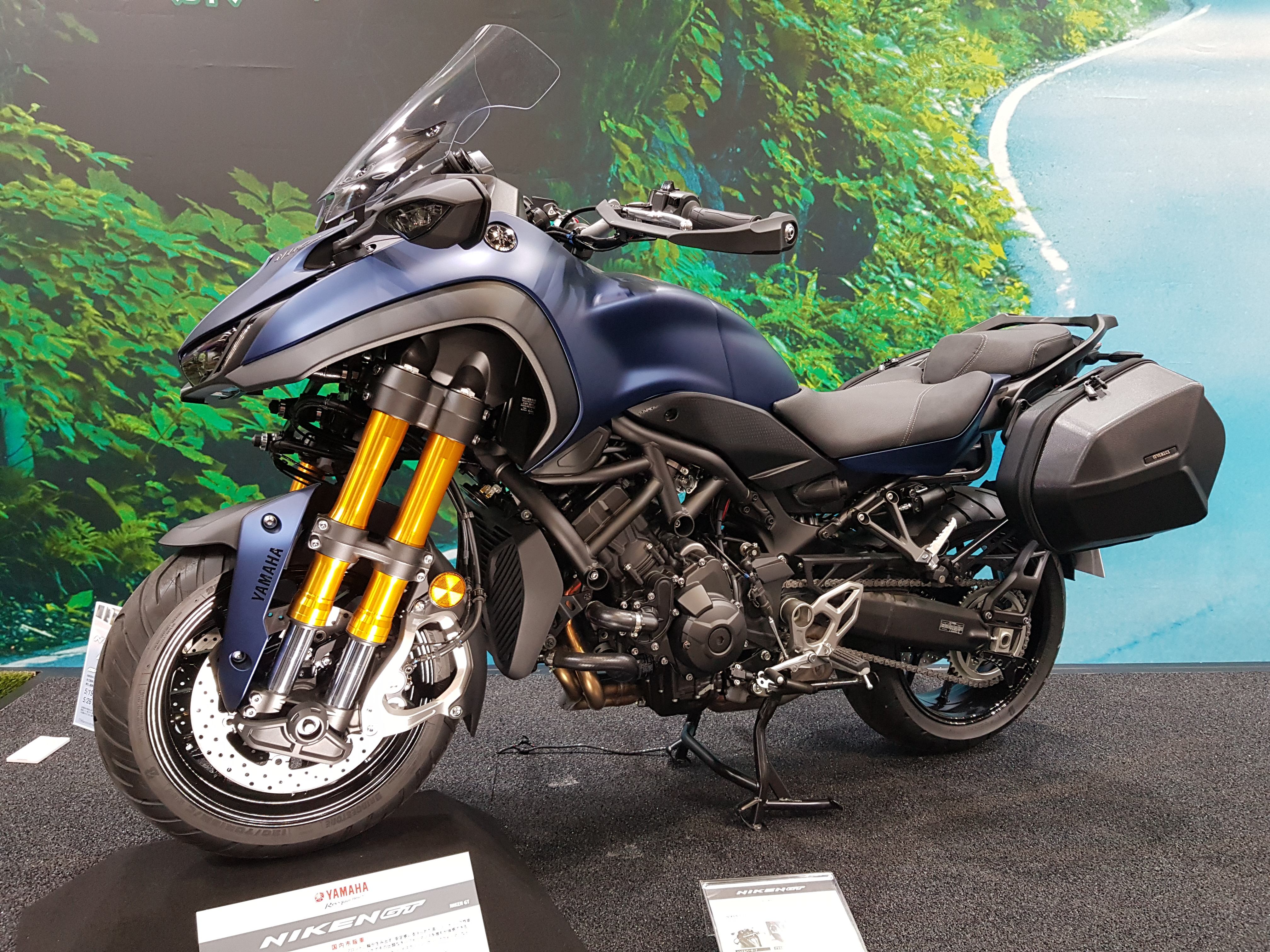 Yamaha Niken GT Tokyo Motorcycle Show 2019